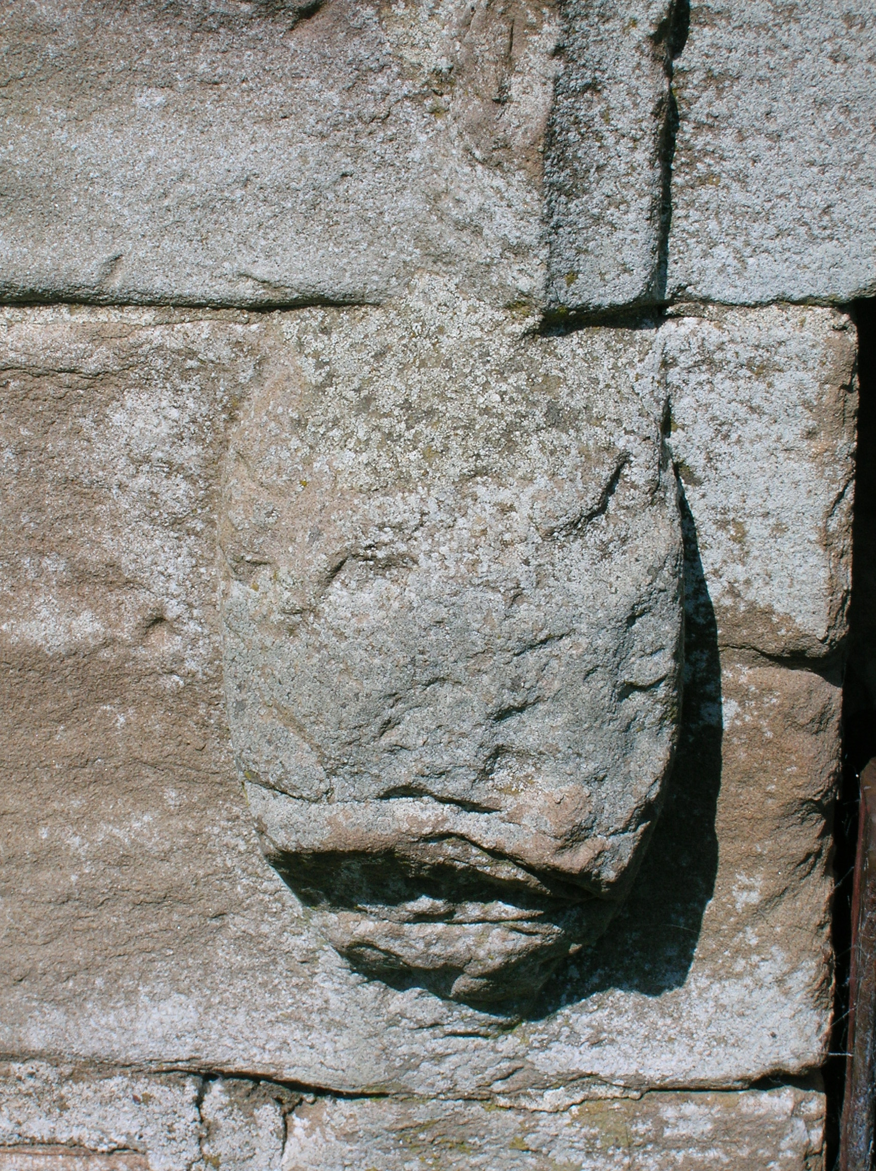 Carving from medieval door of the Eglinton Doocot, Kilwinning, Ayrshire, Scotland. Possibly a Green Man.